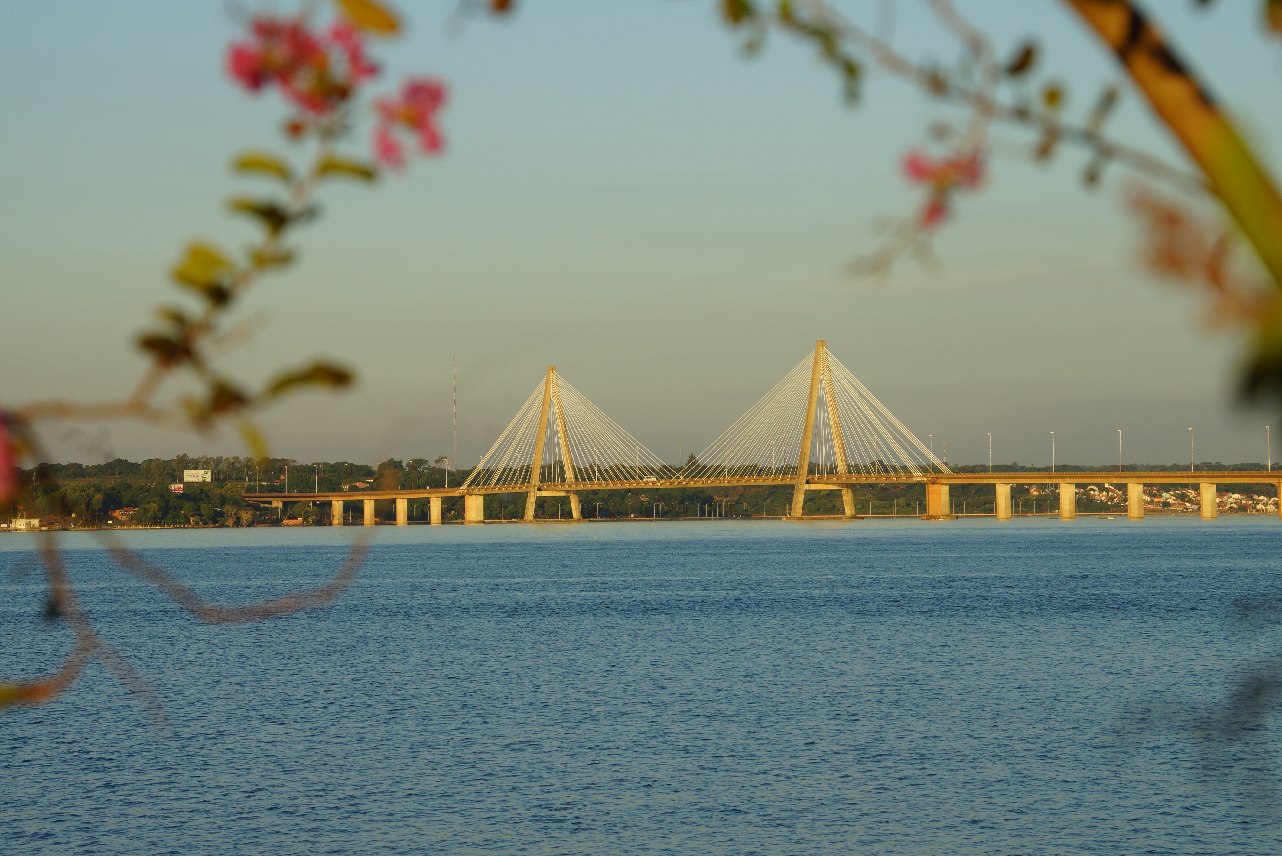 The Bridge over the Paraná River linking the Argentinian city of Posadas to the Paraguayan city of Encarnación.